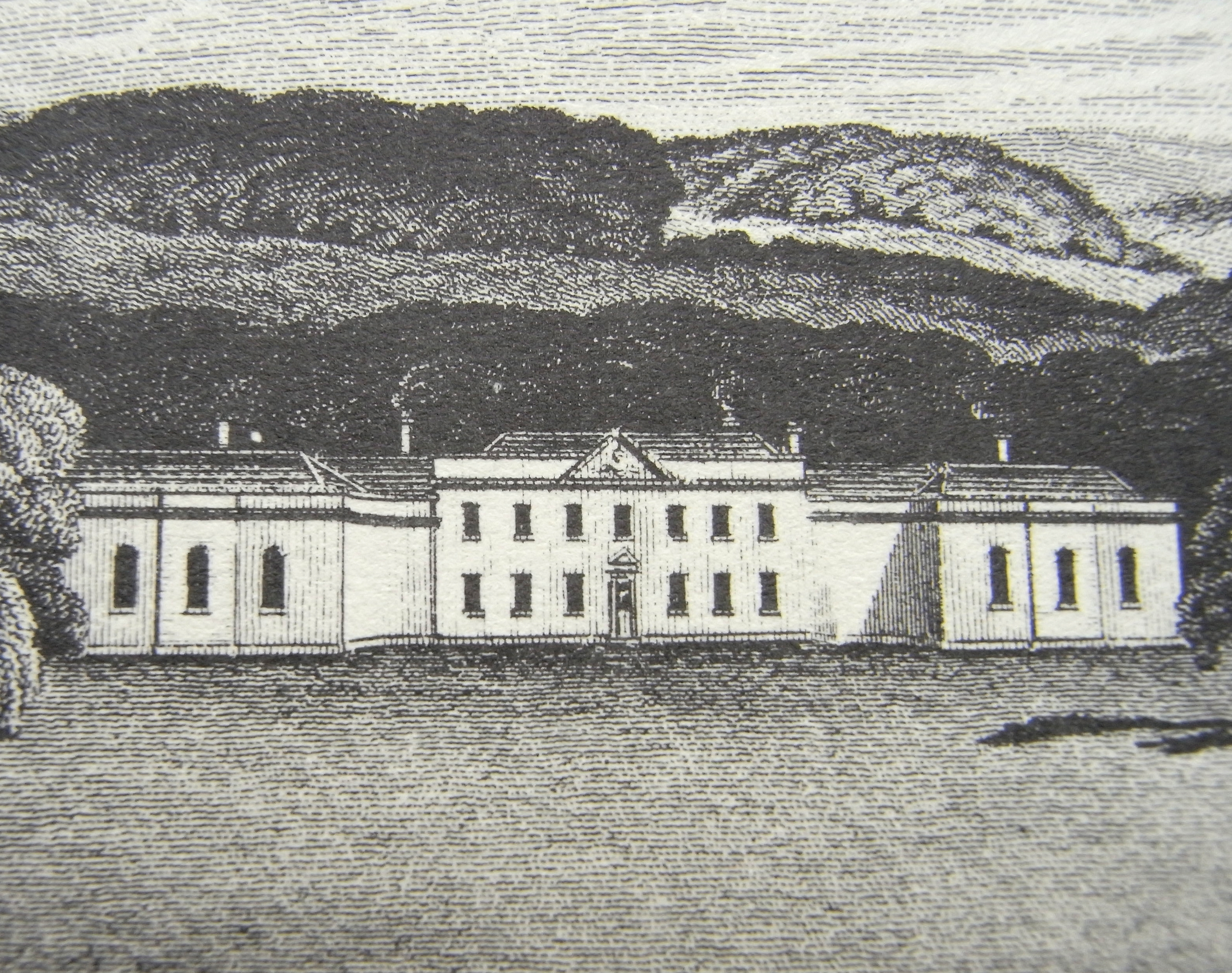 Downes House, near Crediton, Devon, drawn & engraved by T Bonner, published by Richard Polwhele (1760-1838)